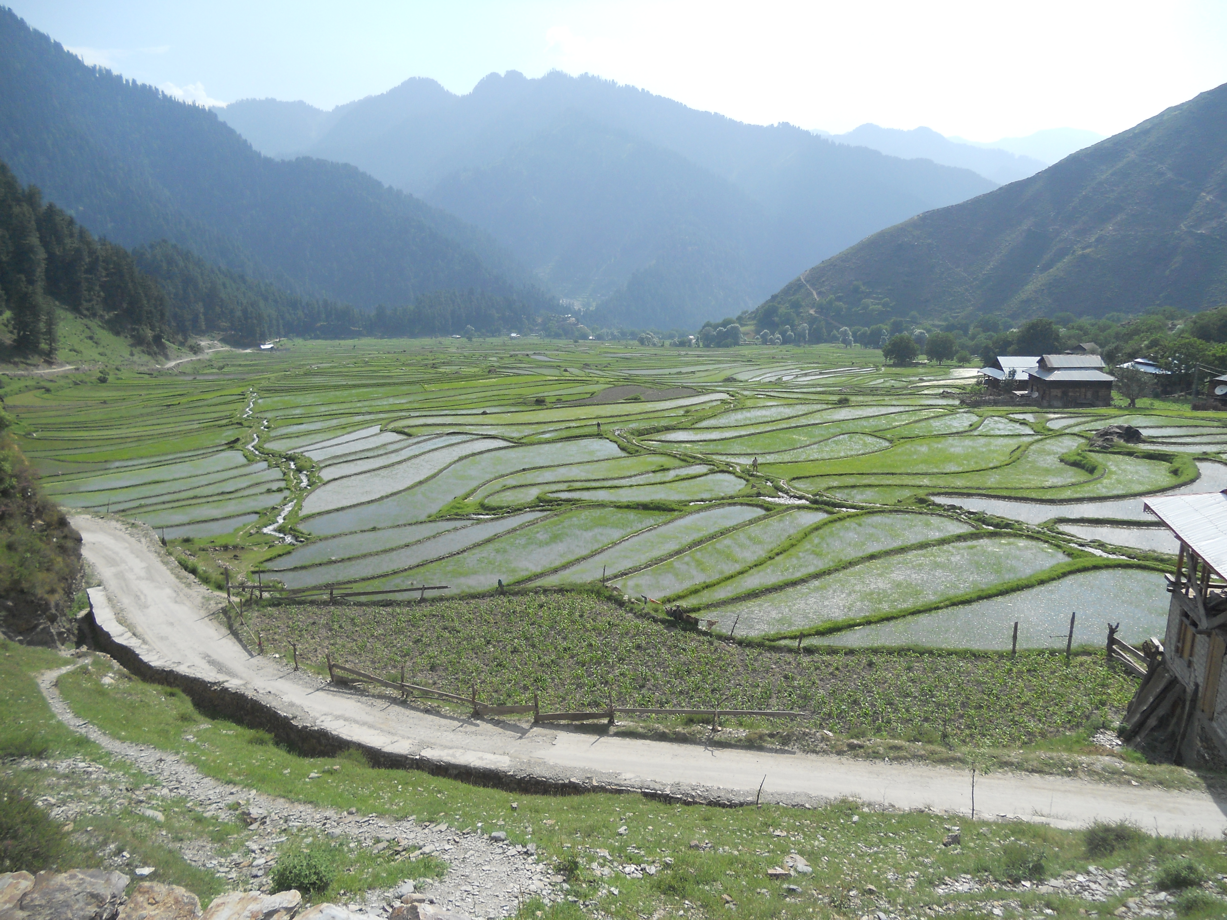 Beautiful fields of Rice, Leepa, AJK, Pakistan